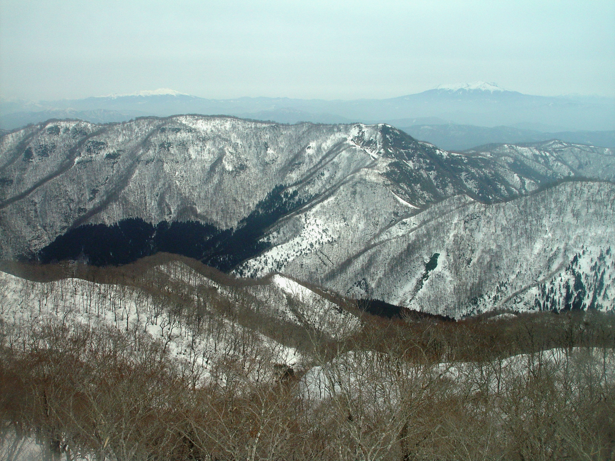 Mount Eboshi seen from Mount Washi in Gifu Prefecture, Japan.